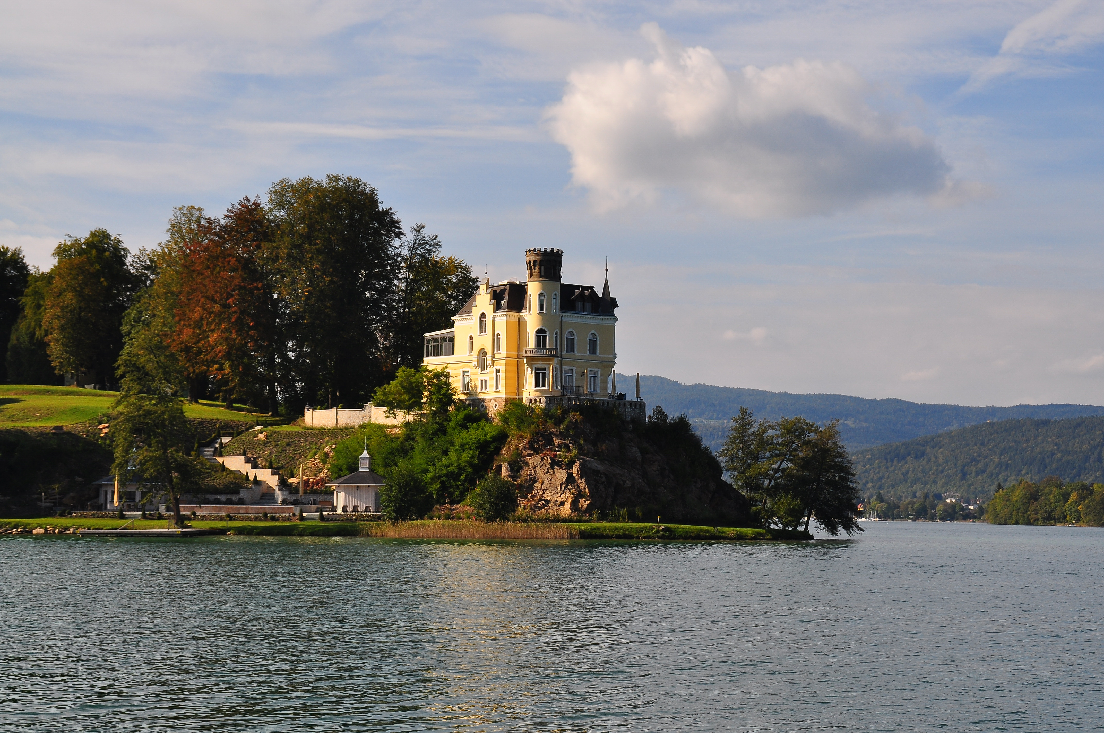 Castle "Little Miramar" (year of creation 1898, reconstruction in 2008) at Reifnitz on the Lake Woerth, community Maria Woerth, district Klagenfurt-Land, Carinthia, Austria